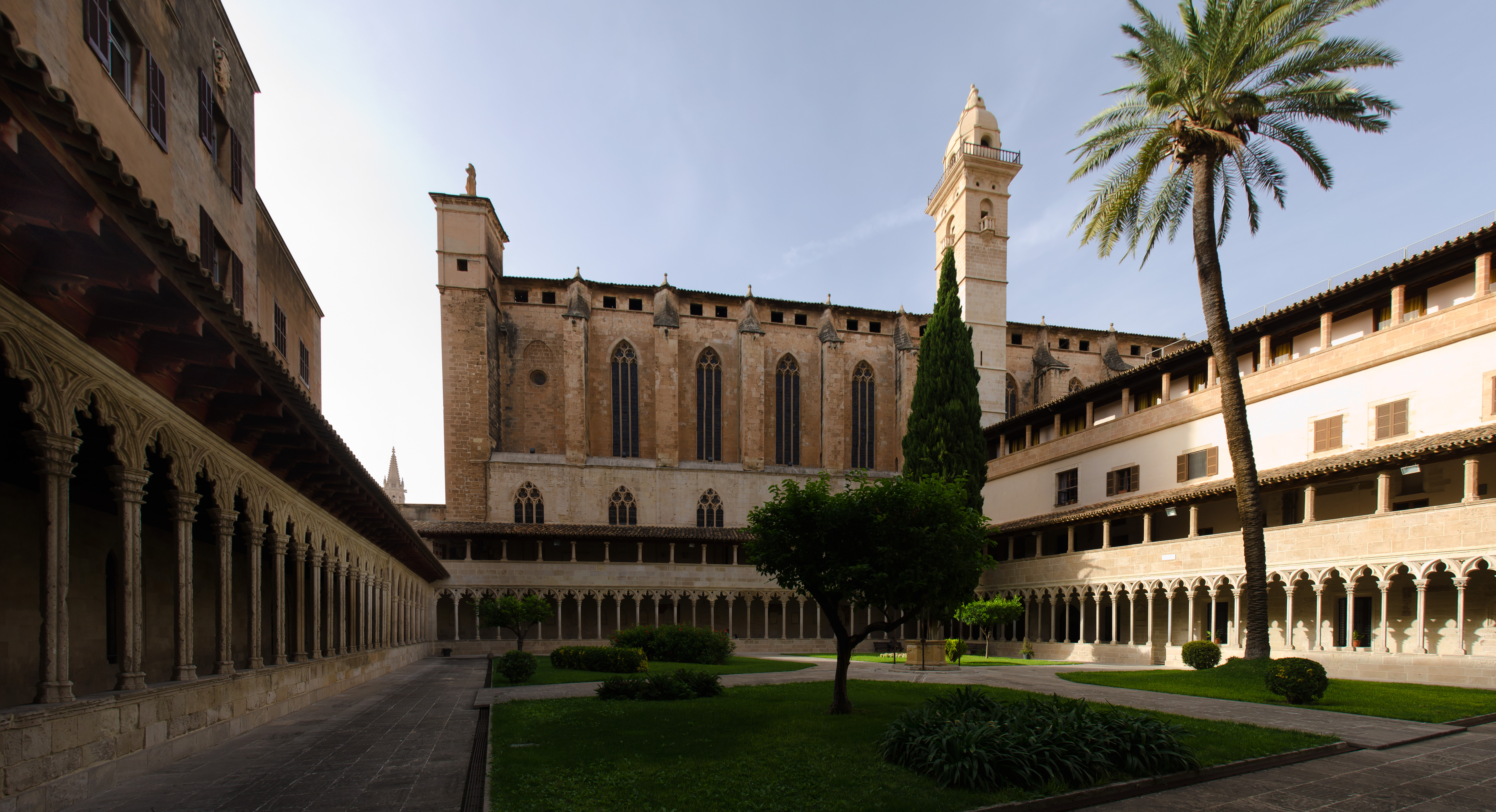 Sant Francesc, Palma de Mallorca. NOTE: This image is a panorama consisting of 5 frames that were merged in Hugin. As a result, this image necessarily underwent some form of digital manipulation. These manipulations may include blending, blurring, cloning, and color and perspective adjustments. As a result of these adjustments, the image content may be slightly different than reality at the points where multiple images were combined. This manipulation is often required due to lens, perspective, and parallax distortions. This image was created with Hugin